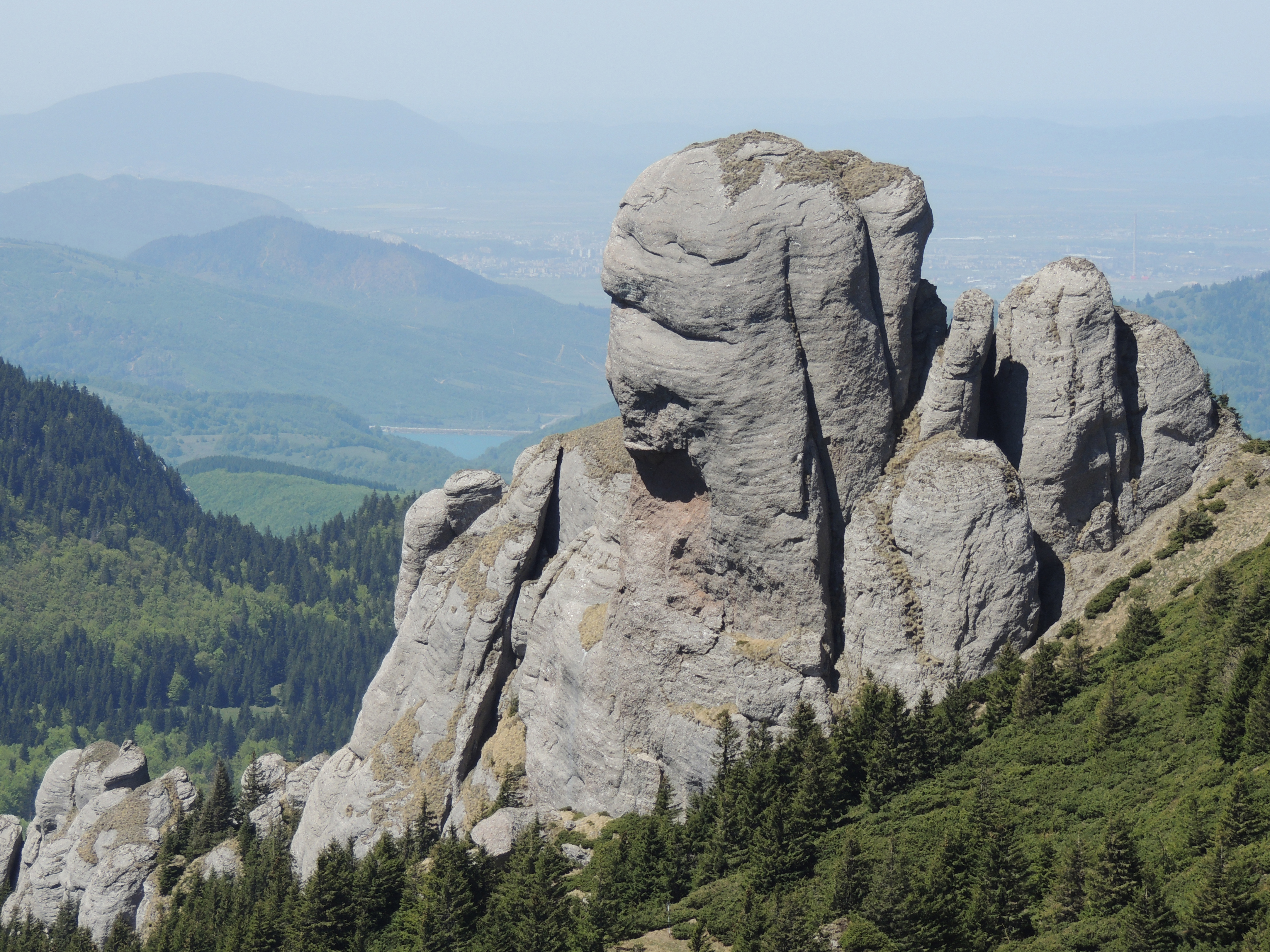 The megalith named Turnu Goliat in the Ciucaş Mountains, Romania.